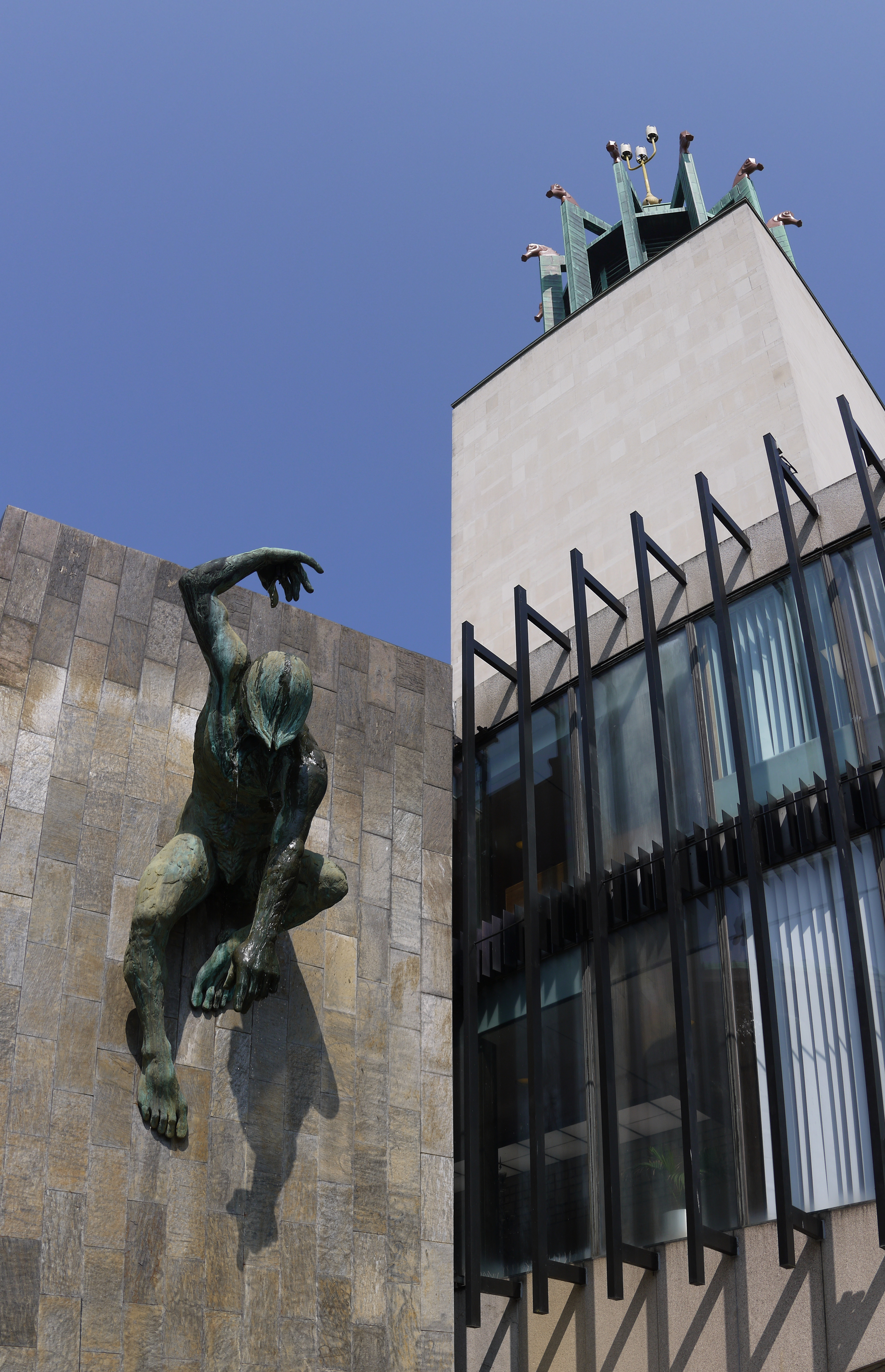 River God Tyne by David Wynne